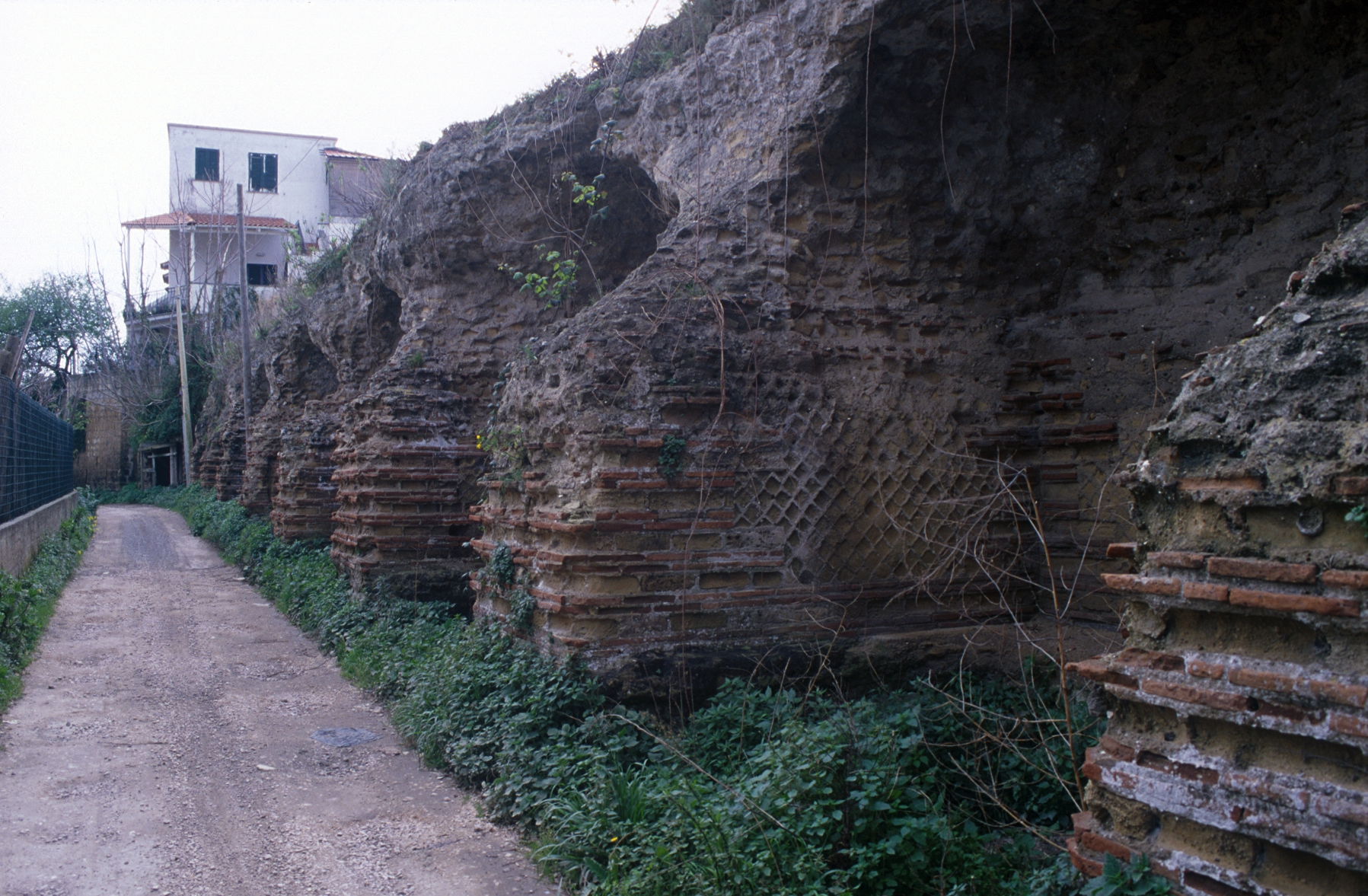 The external buttressing of the 'piscina mirabilis' (Bacoli, Bay of Naples, Italy).